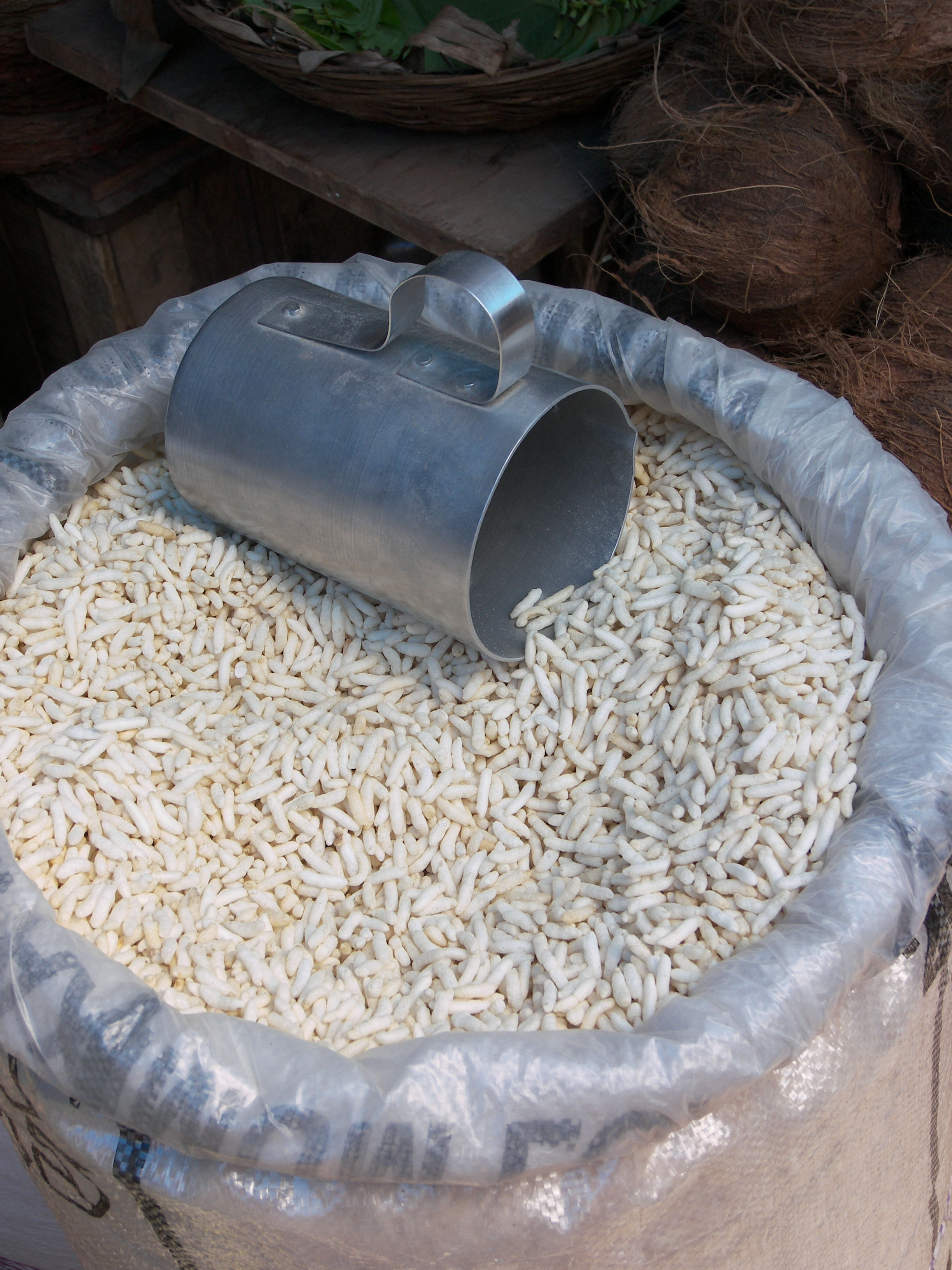 Rajesh Dangi, Bangalore, July 2007, "Puffed Rice"